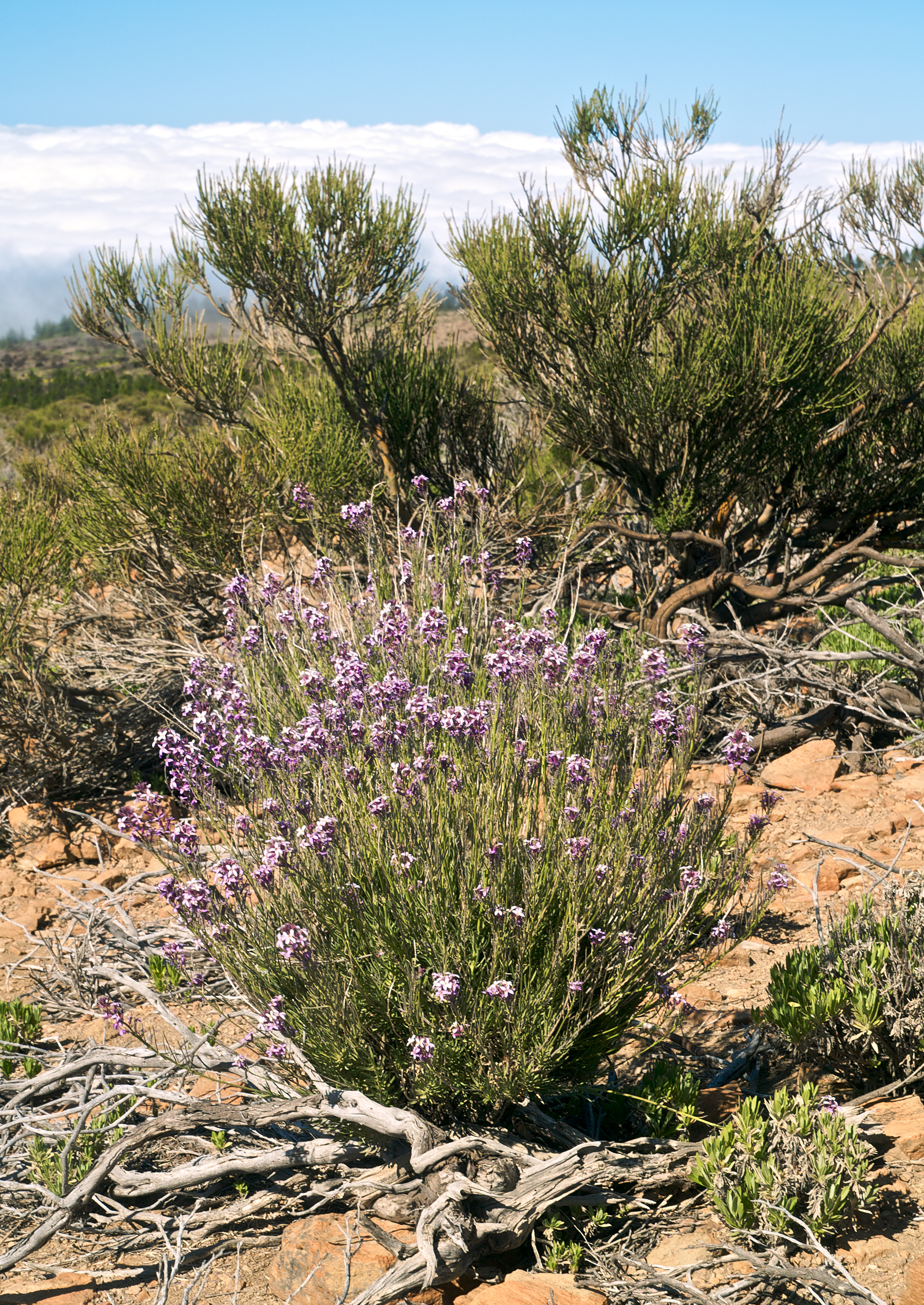 Erysimum bicolor, Tenerife, Spain